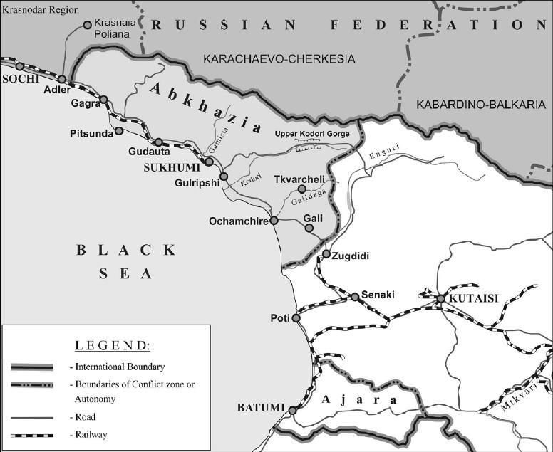 Map of western Georgia.